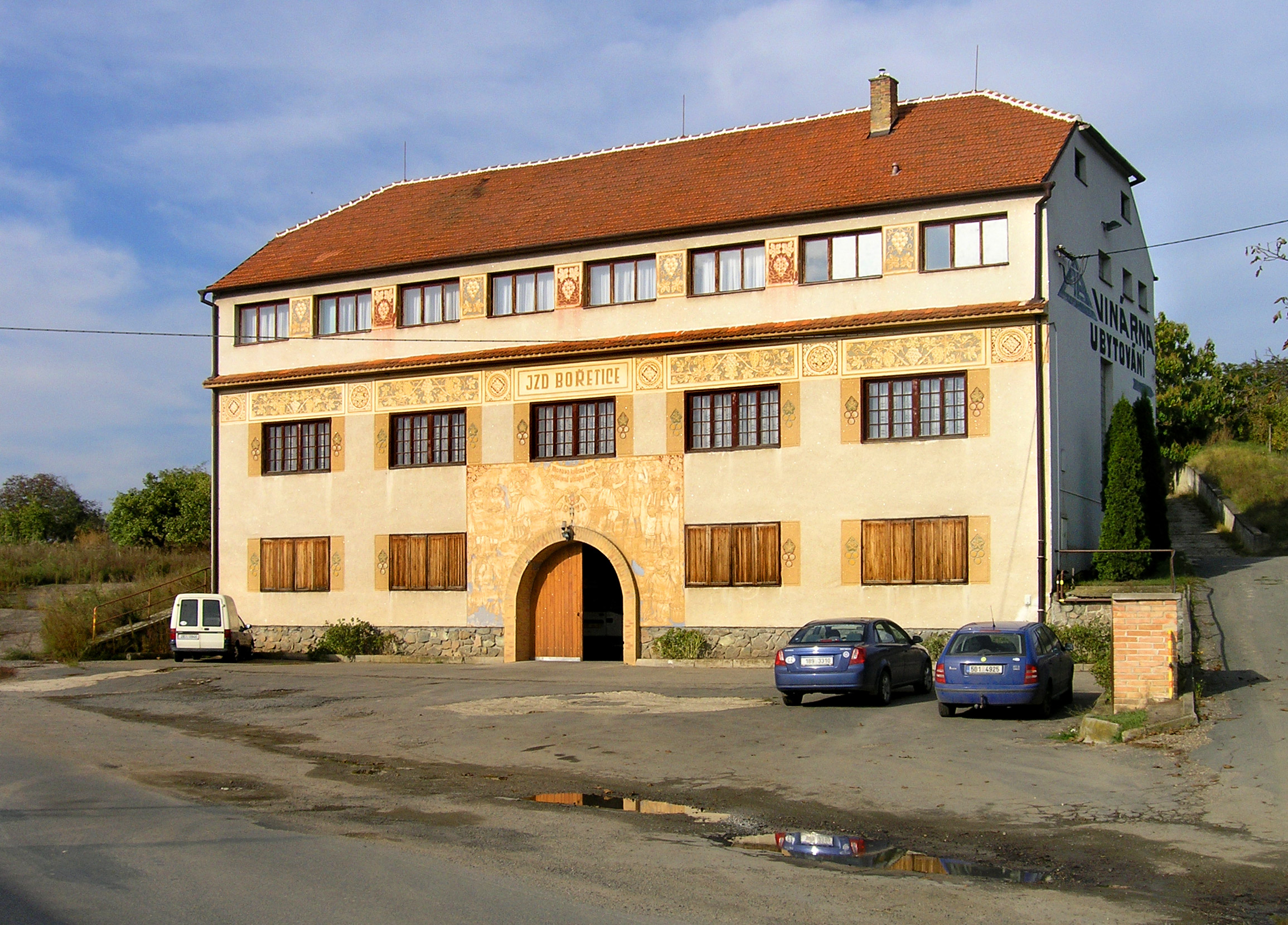 Restaurant and wine bar in Bořetice, Czech Republic